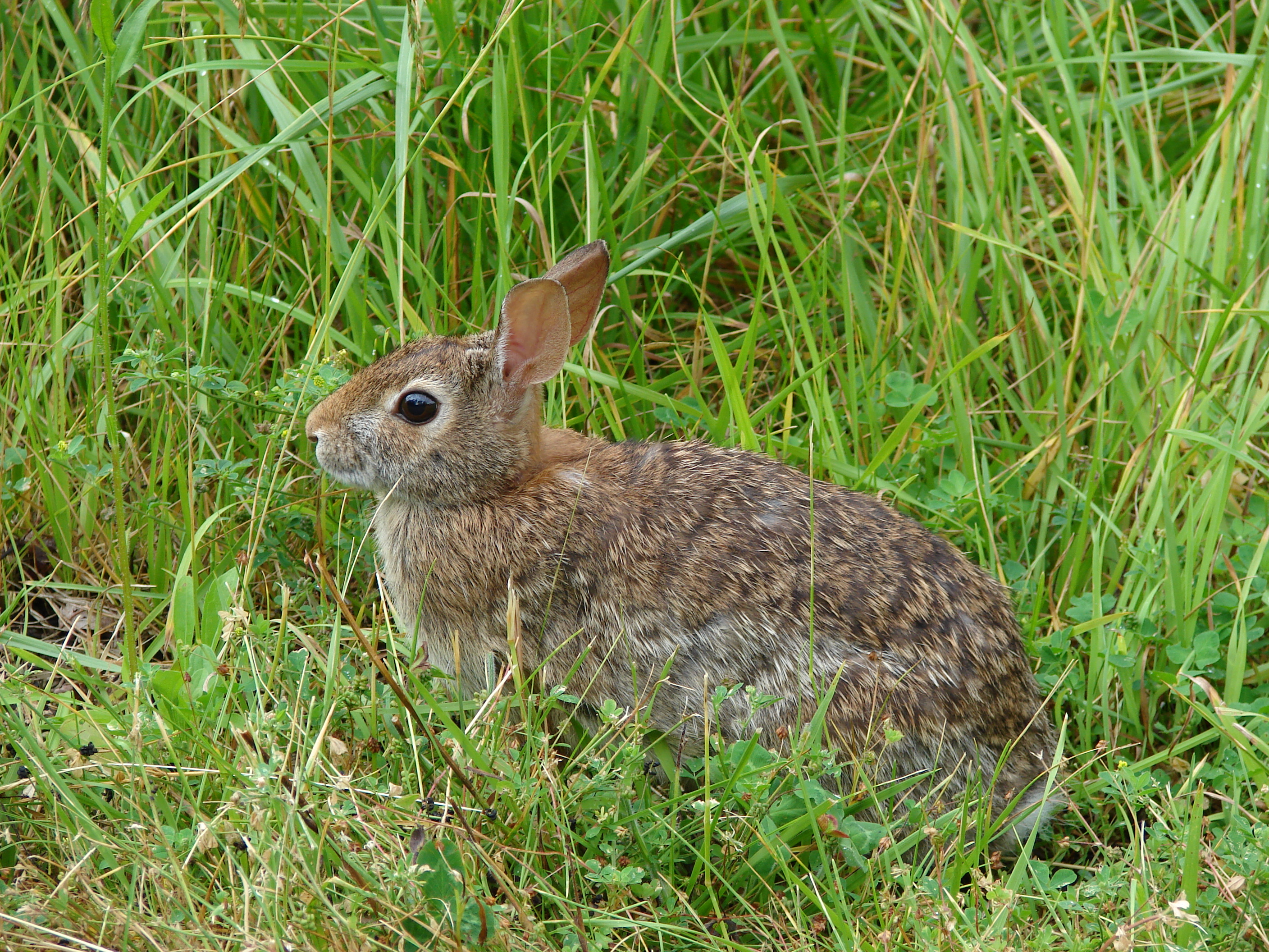 Rich Stehli(2006)